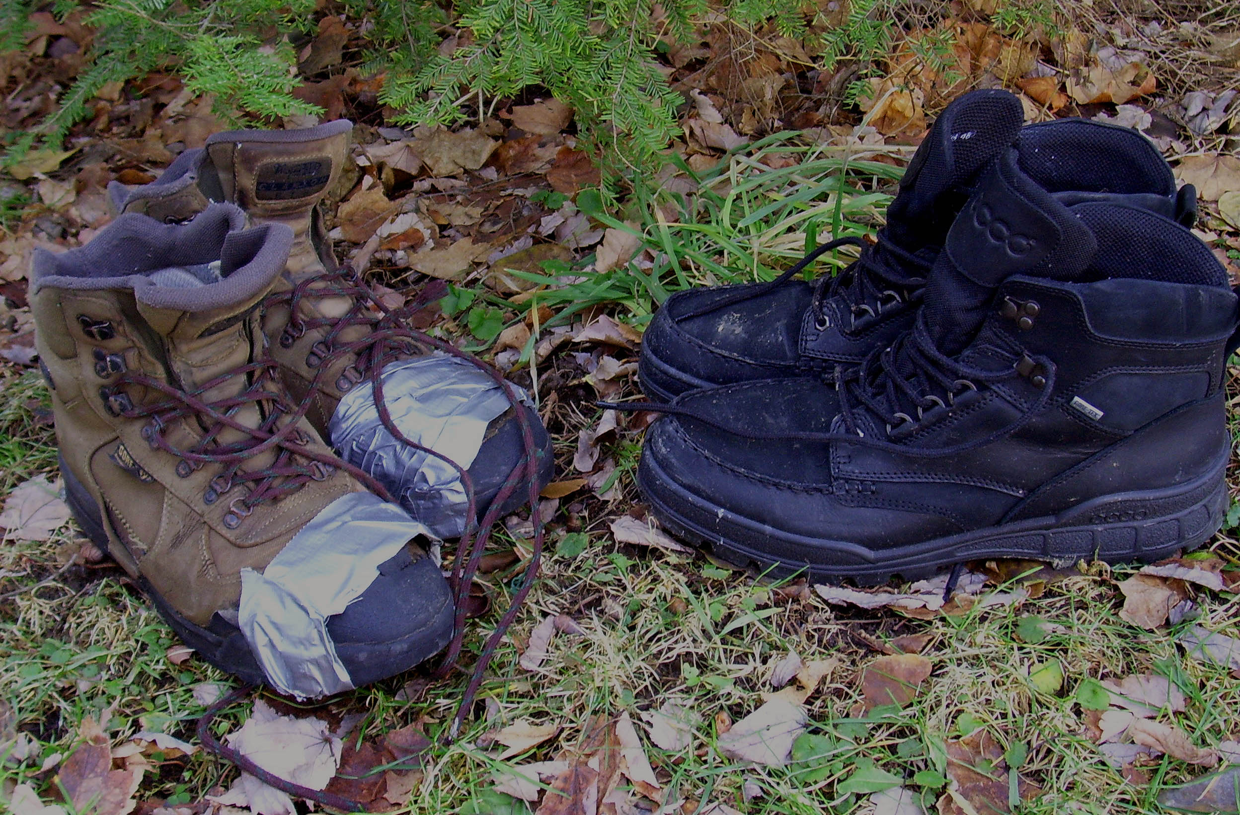 Photographed by Daniel Case 2006-01-20.